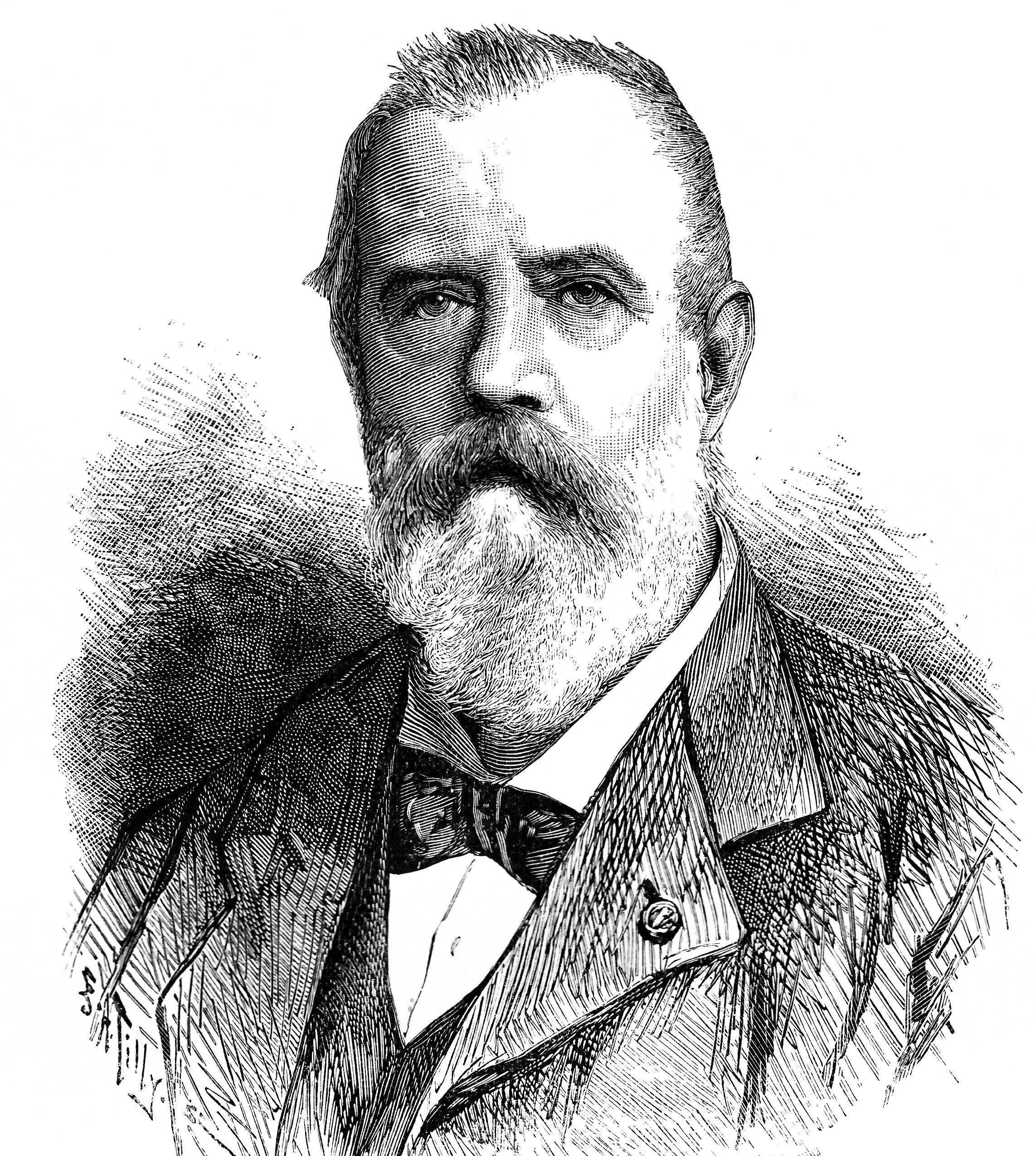 Mr. S.C.J.W. Musschenbroek